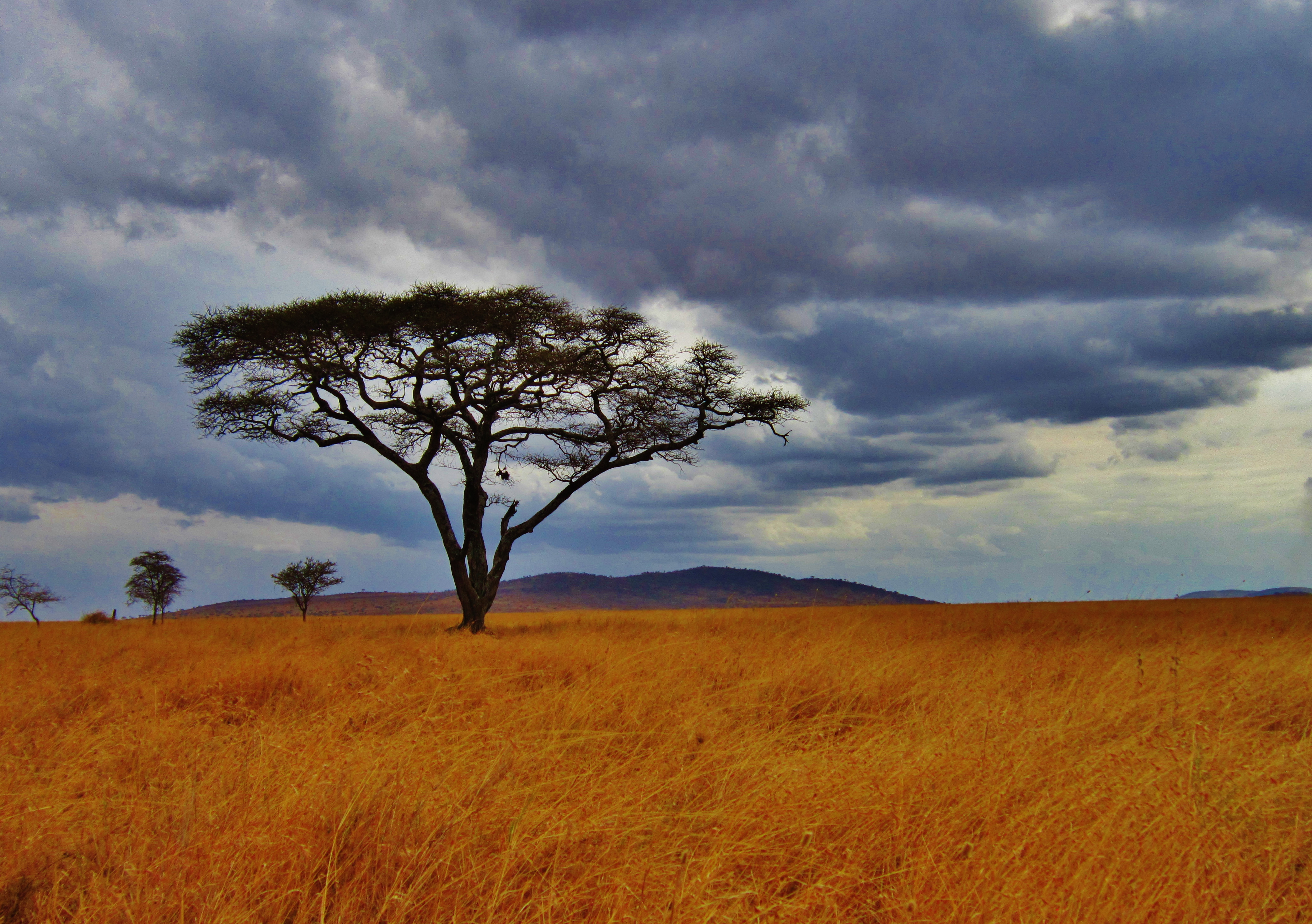 Acacia Tree in the Serengeti, Tanzania